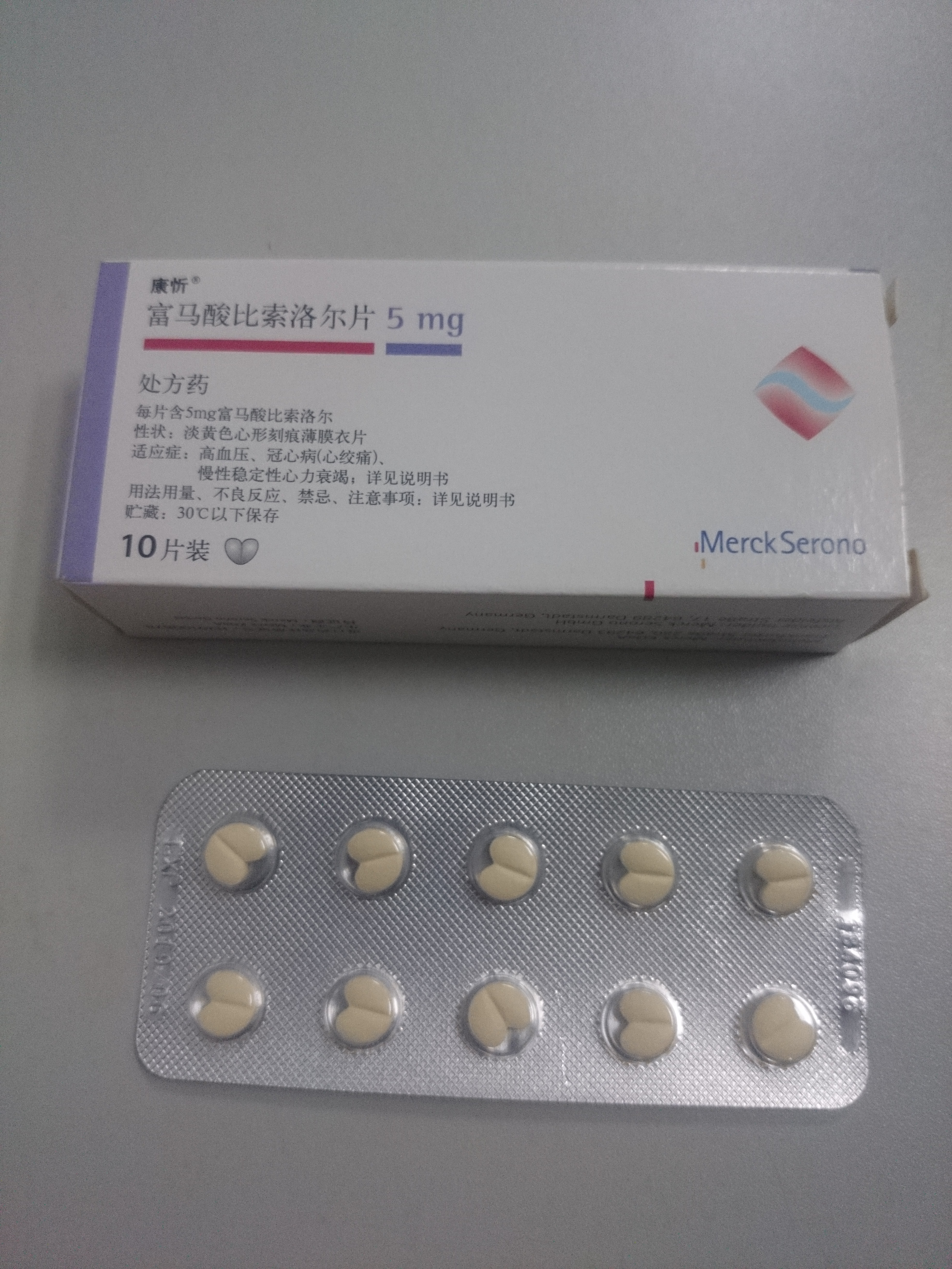 Concor® Bisoprolol Fumarate Tablets sales in mainland China. Specification is 5mg * 10 tablets.